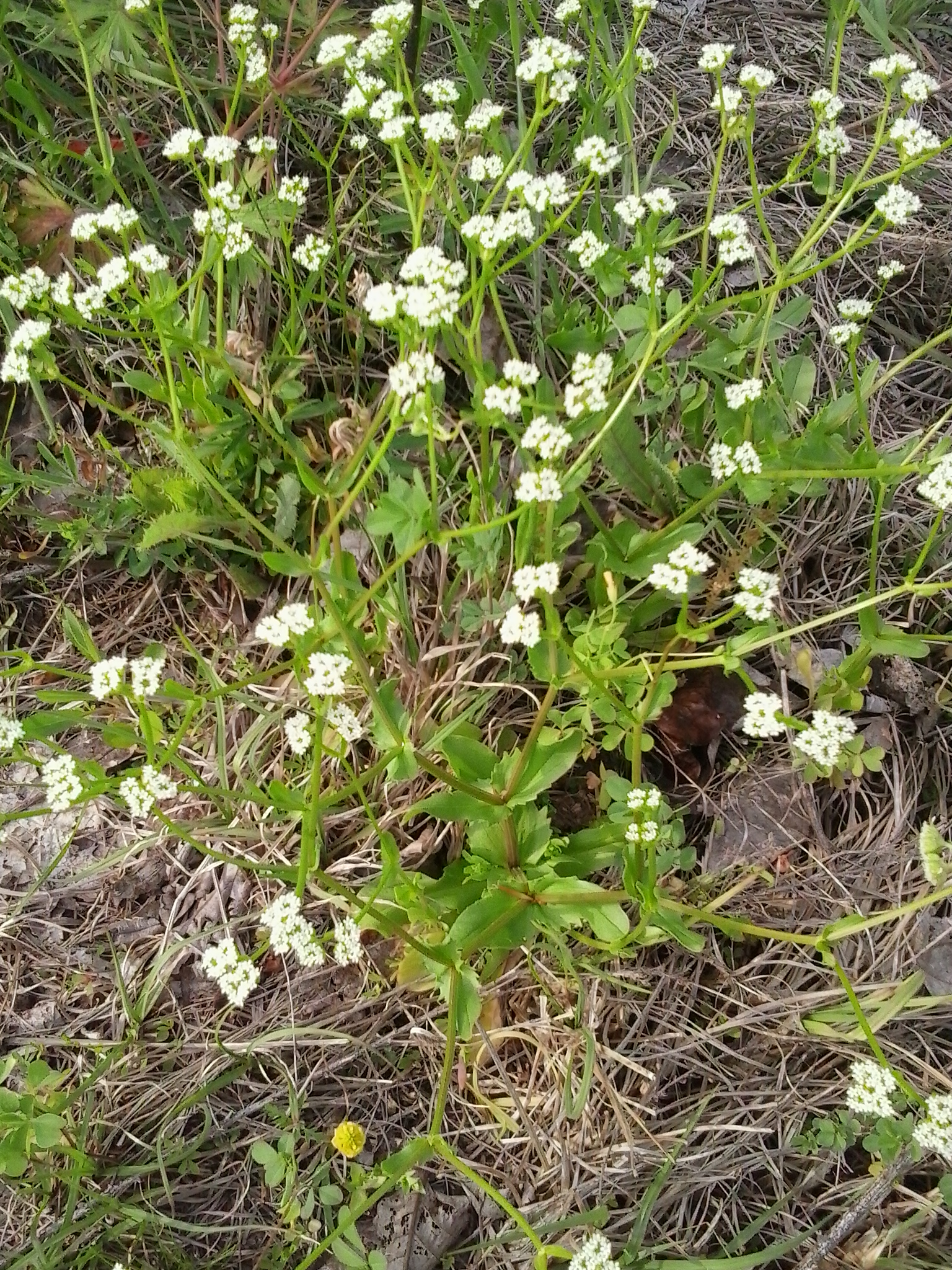 Valerianella radiata flowering plant